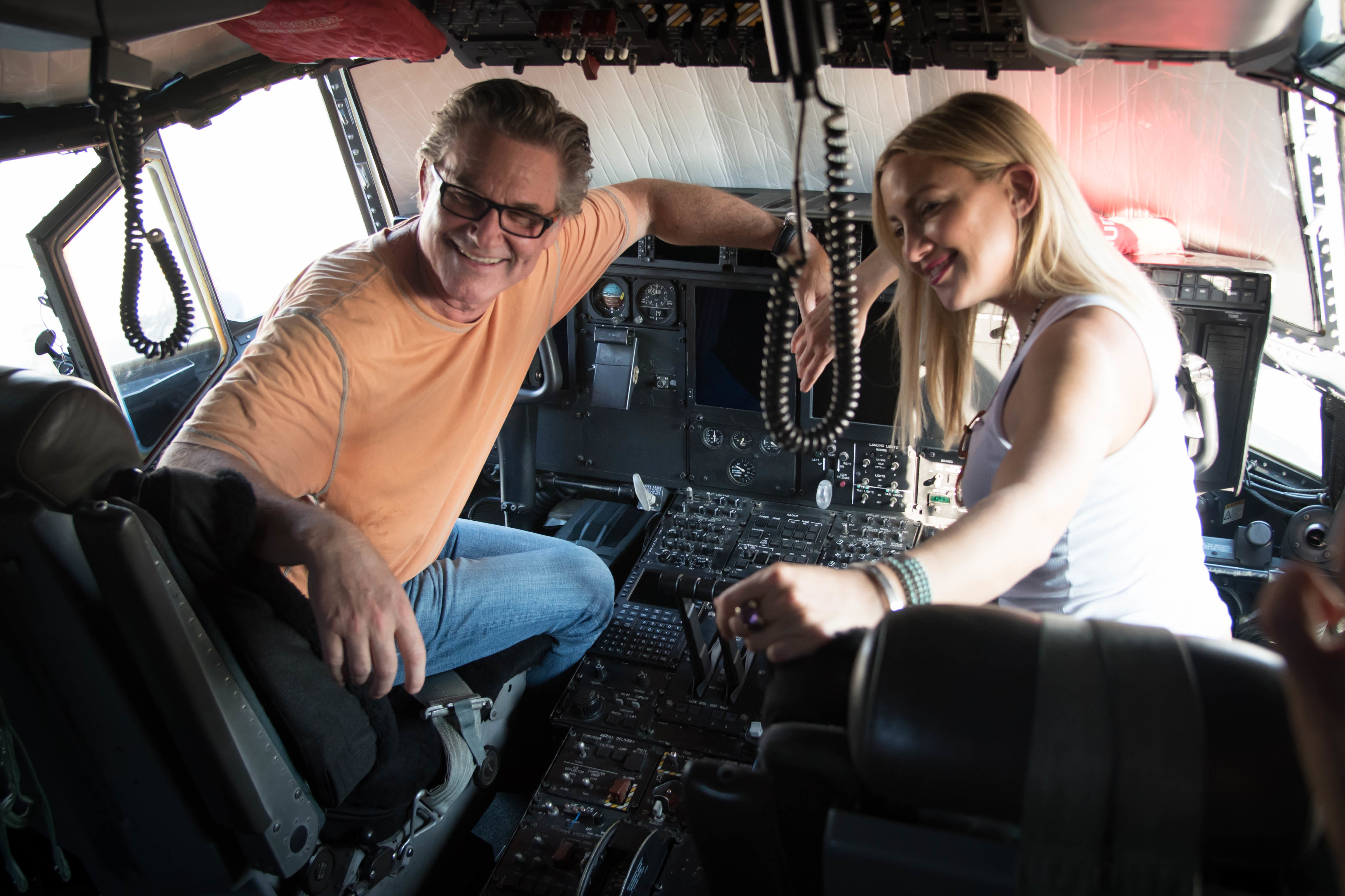 Actors Kurt Russell and Kate Hudson sit in the cockpit of a 53rd Weather Reconnaissance Squadron WC-130J Super Hercules. They visited Keesler Air Force Base Sept. 10 with director Peter Berg and as part of a prescreening of their new film, Deepwater Horizon.